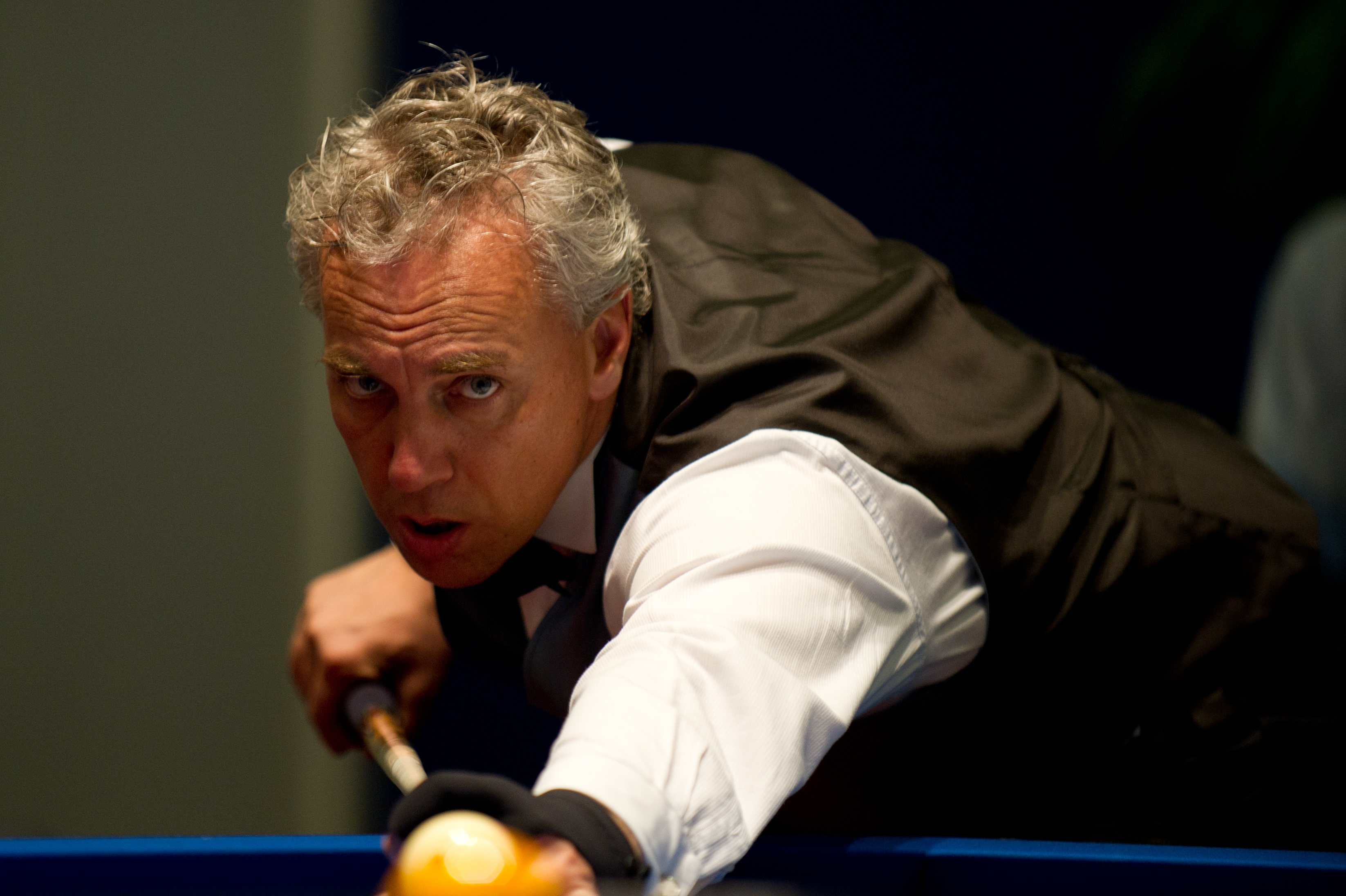 At the game.